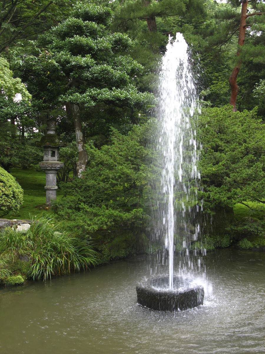 Kenroku-en, Kanazawa, Ishikawa Prefecture, Japan The first fountain in Japan